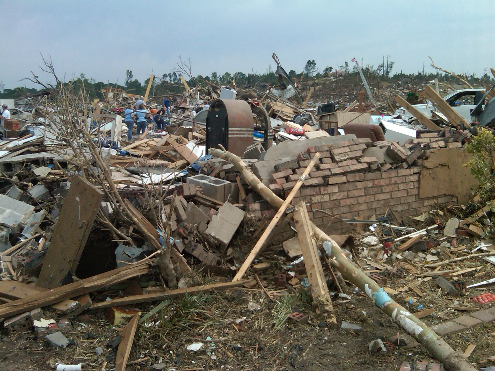 EF-4 damage to a residence on the afternoon of April 27, 2011.